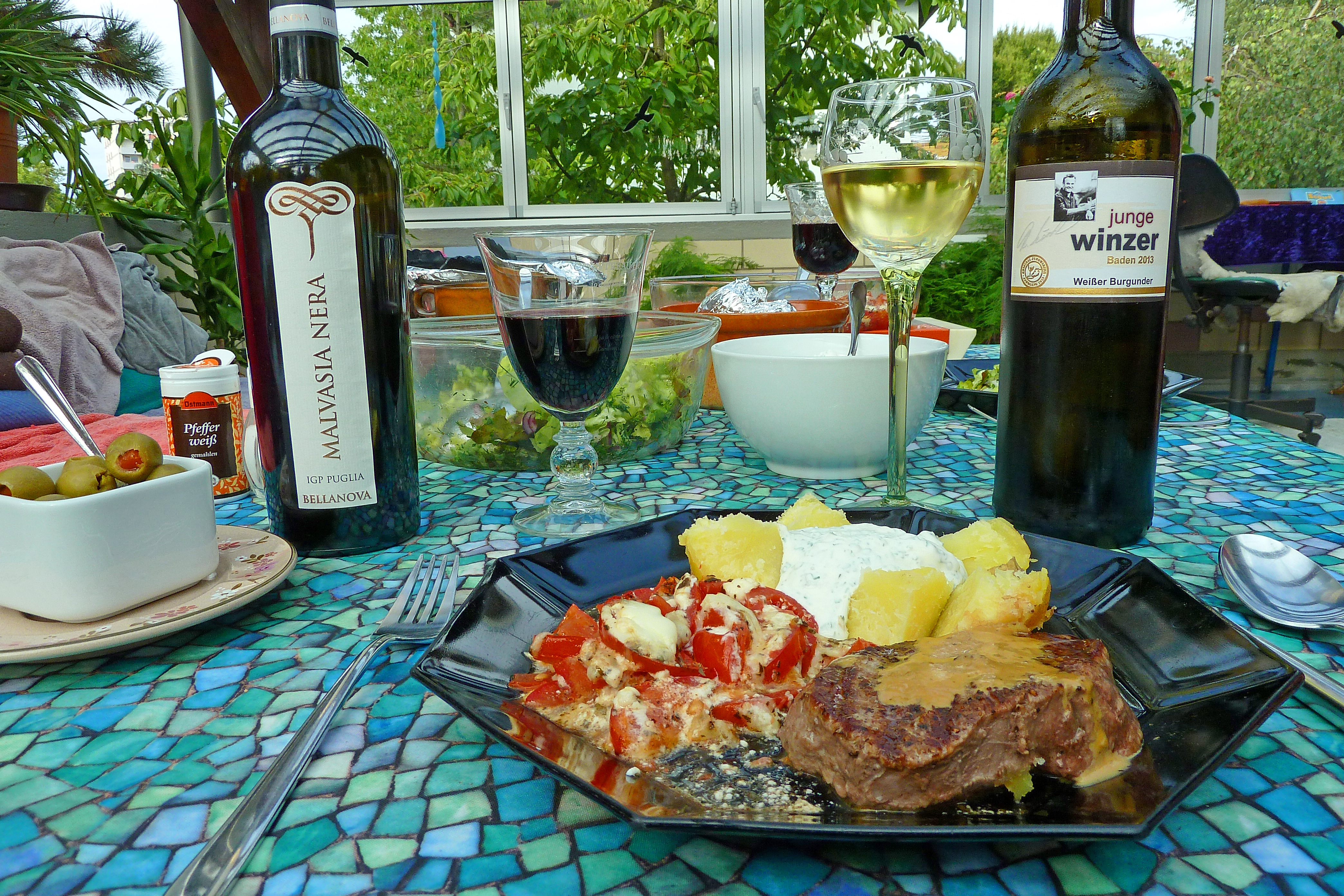 Beef-Steak from Irish Ox. As side dishes: Tomatoe-Cheese-Gratin, Sour Cream with herbs together with Crème Fraîche, Grilled Potatoes and Green Salad. - At the left is a good Italian dry red wine, at the right a well tasting white Burgundy wine (Pinot Blanc) from Baden in the Southwest of Germany. - Our recipe (in German) you can find here